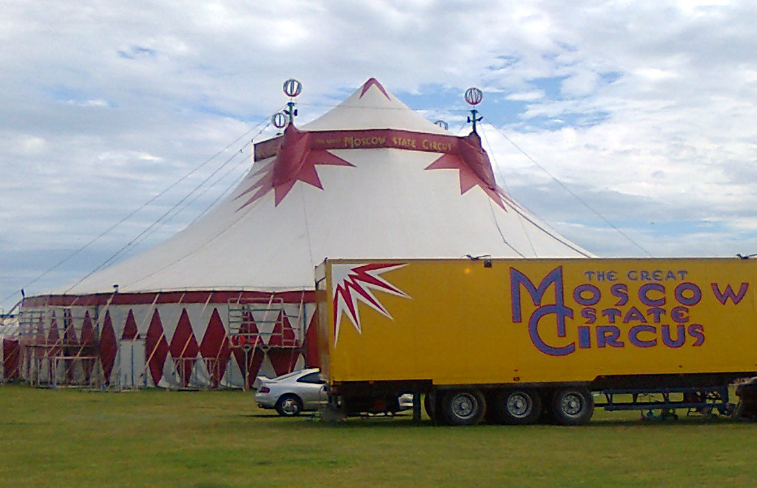 This is a photograph of the Moscow State Circus Big Top, intended for use in the article Moscow State Circus. It was taken during the 2012 'Babushkin Sekret' tour of the UK.